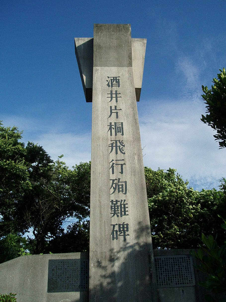 The memorial of two aviators, Sakai and Katagiri, who were on a flight to report the signing of the Japan–Manchukuo Protocol and lost in a plane accident which occured in Yabase (today's Kotoura, Tottori) in September 1932. Located in Yabase, Kotoura, Tottori, Japan.